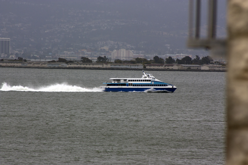 MV Golden Gate, as seen from Alcatraz in SF Bay